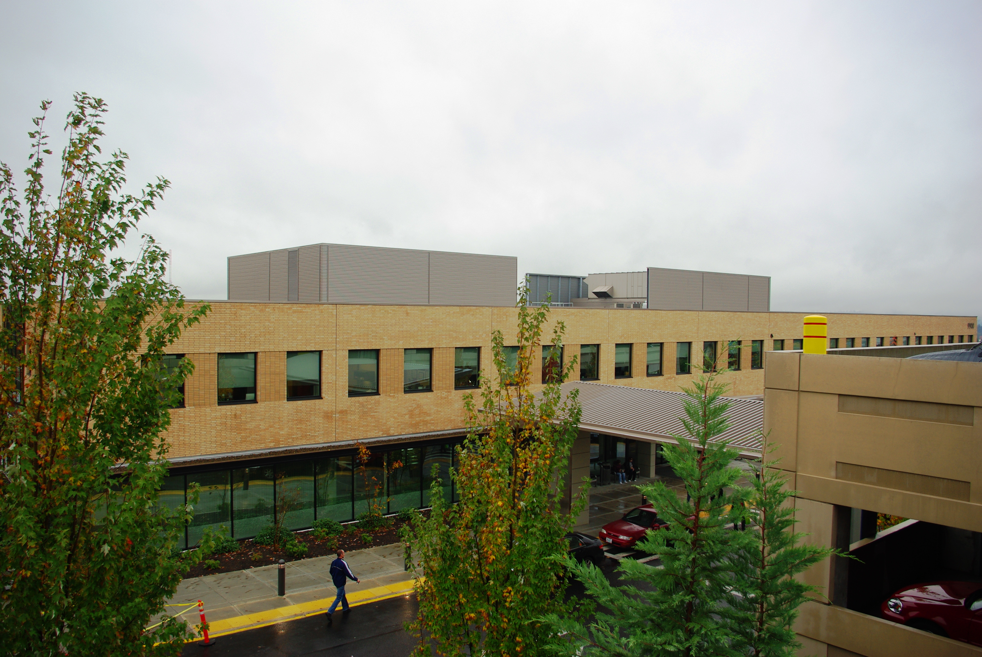 Kaiser Permanente Sunnyside Medical Center in Clackamas County, Oregon, USA.